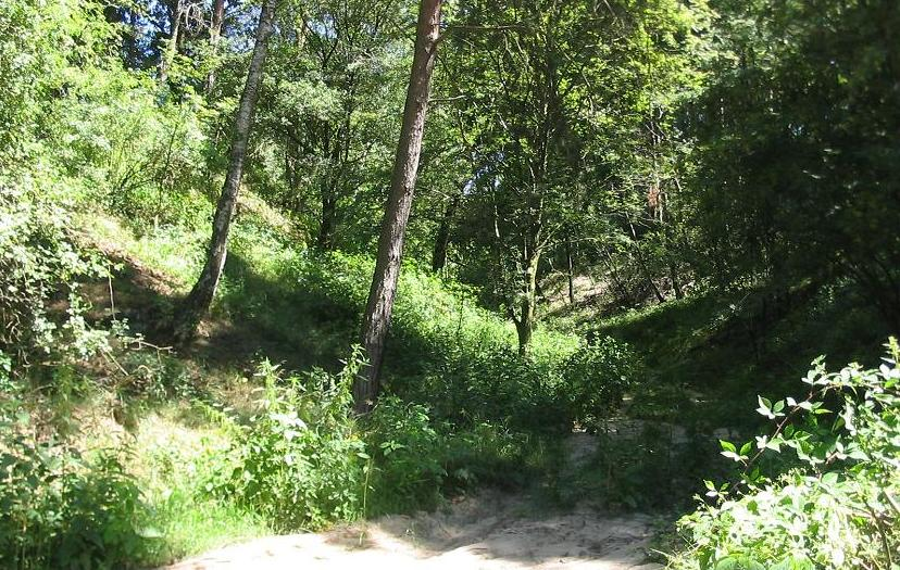 Periglacial arroyo „Brautrummel“, typical in landscape Fläming (called: „Rummel“), nearby Grubo. The village Grubo is a part of the municipality Wiesenburg/Mark in the district Potsdam Mittelmark, state Brandenburg, Germany. Grubo appertains to the natural preserve Naturpark Hoher Fläming.